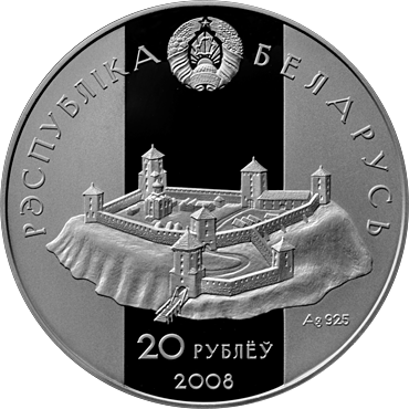 "Davyd of Garadzen", Silver commemorative coins, denomination: 20 rubles